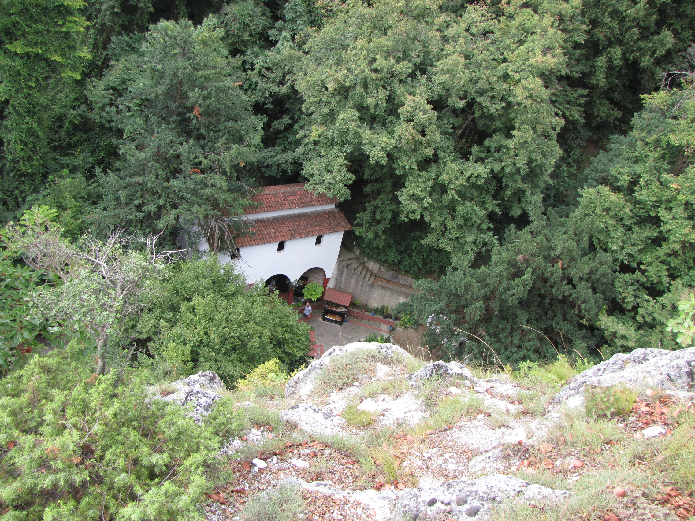 Chapel Agia Kori, Olympus